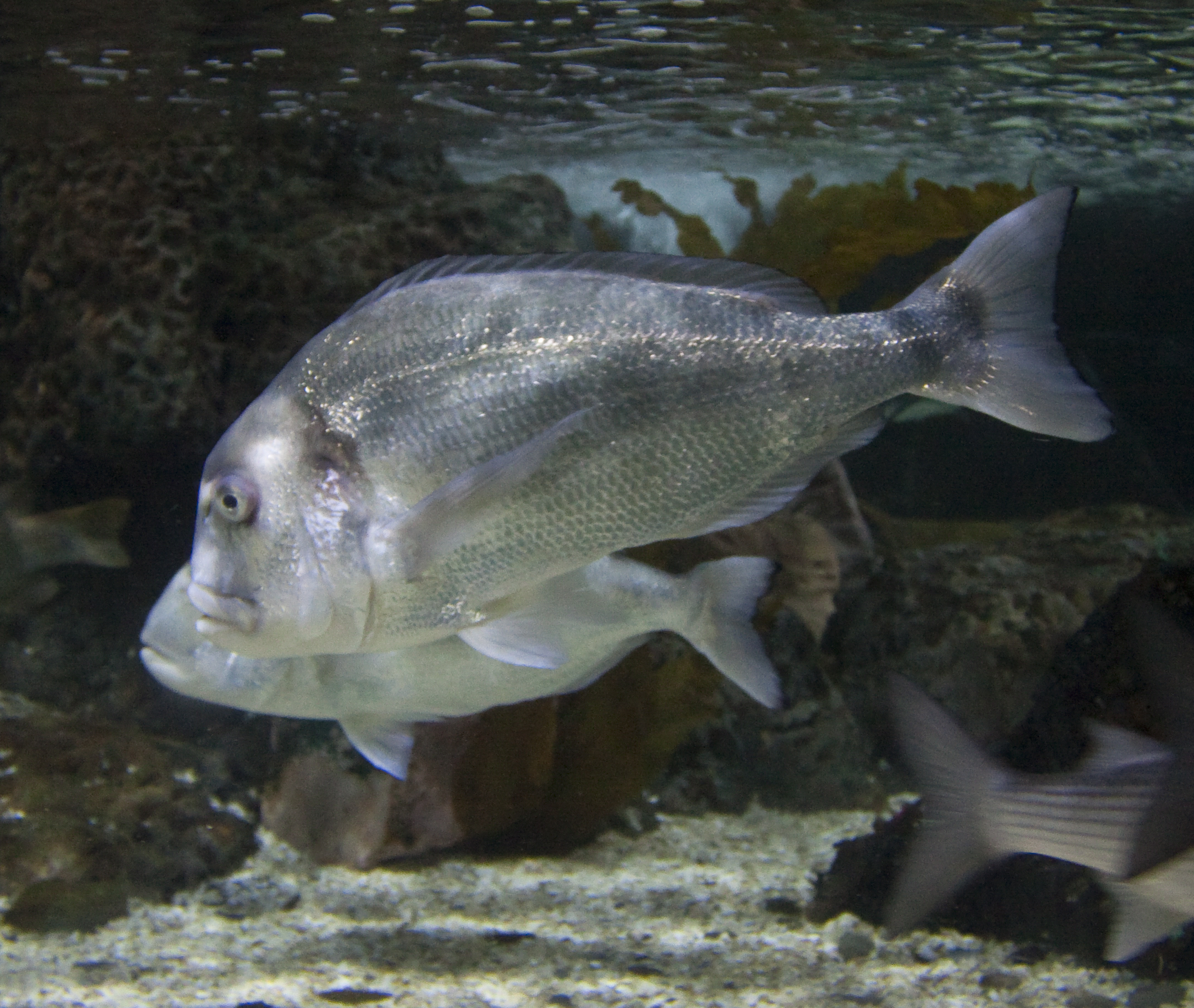 Gilthead Bream